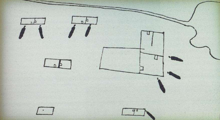 This is a map of Fort Saint Louis as it looked in 1689. The map was included in Relacion y Discursos de Descubrimiento, written by Alonso De Leon in the 1690s.